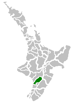 Location of Manawatu District